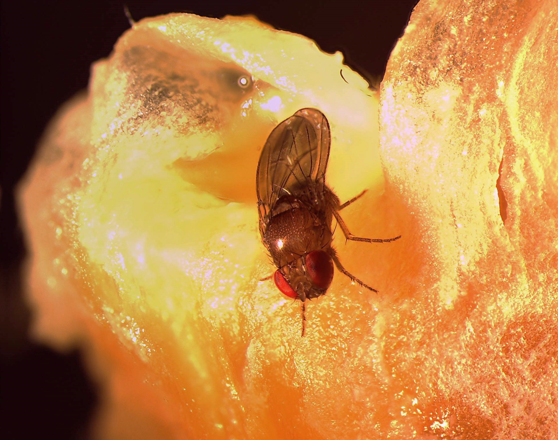 Drosophila pseudotakahashii from Queensland, Australia